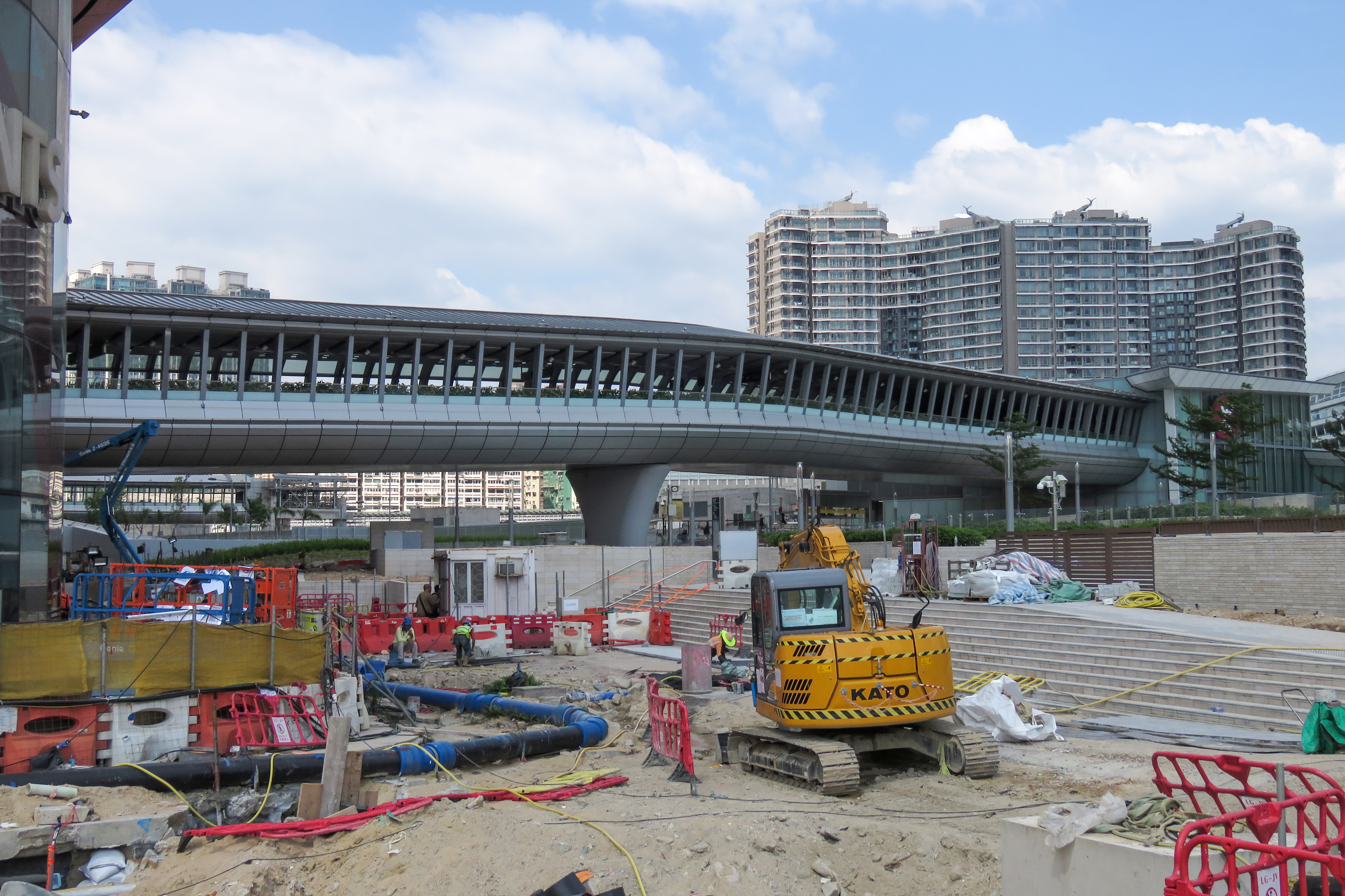 Seven days to go!